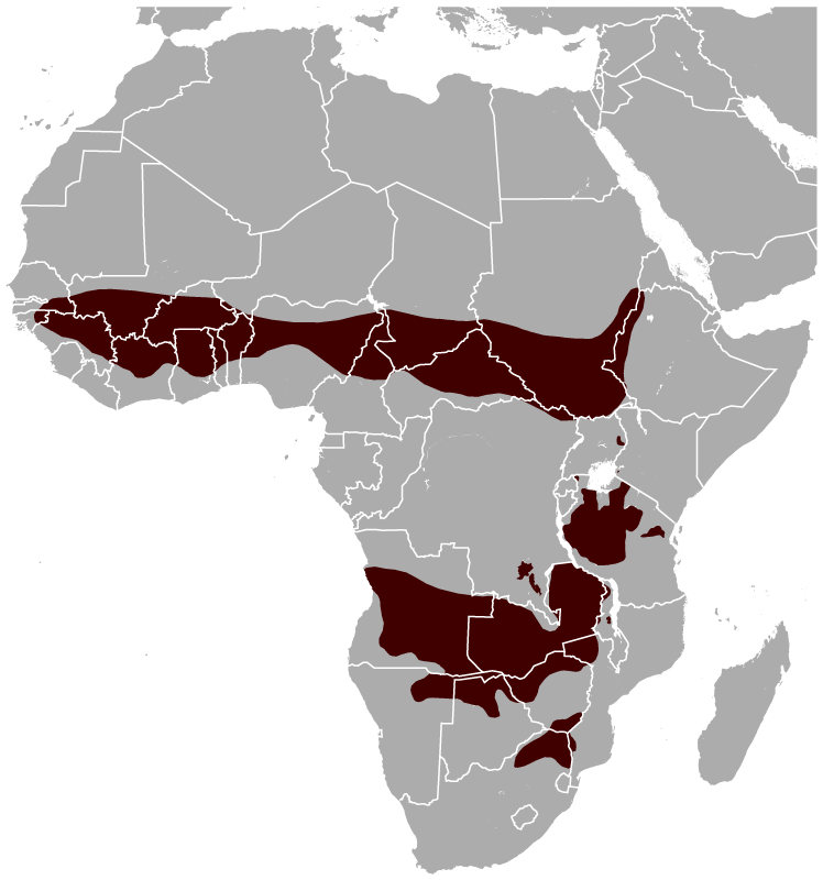 Geographical distribution of the Roan Antelope Hippotragus equinus. The map was created using the Generic Mapping Tools, GMT, version 5.1.2.